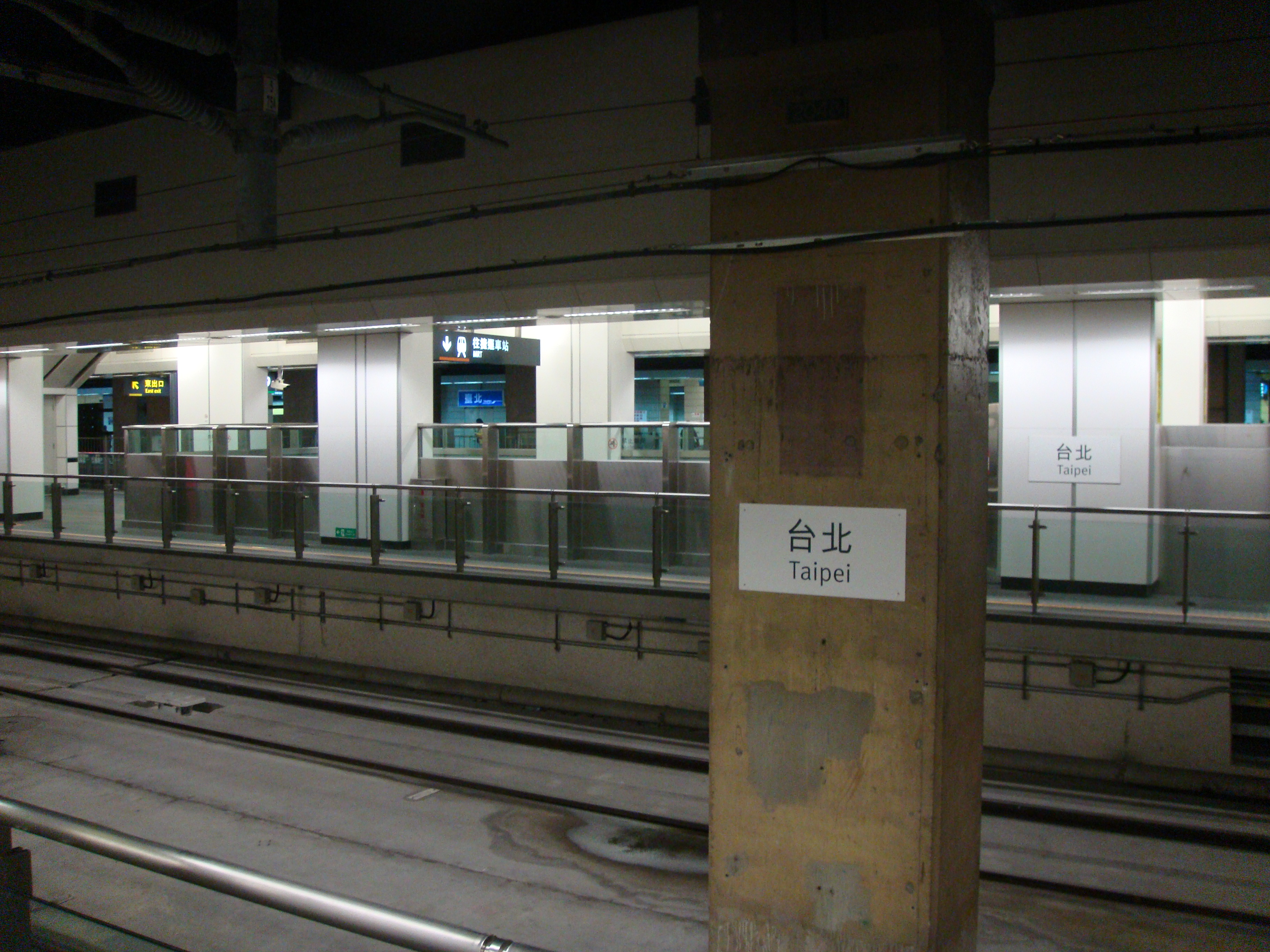 Platform 2, Taipei Station, Taiwan High Speed Rail.